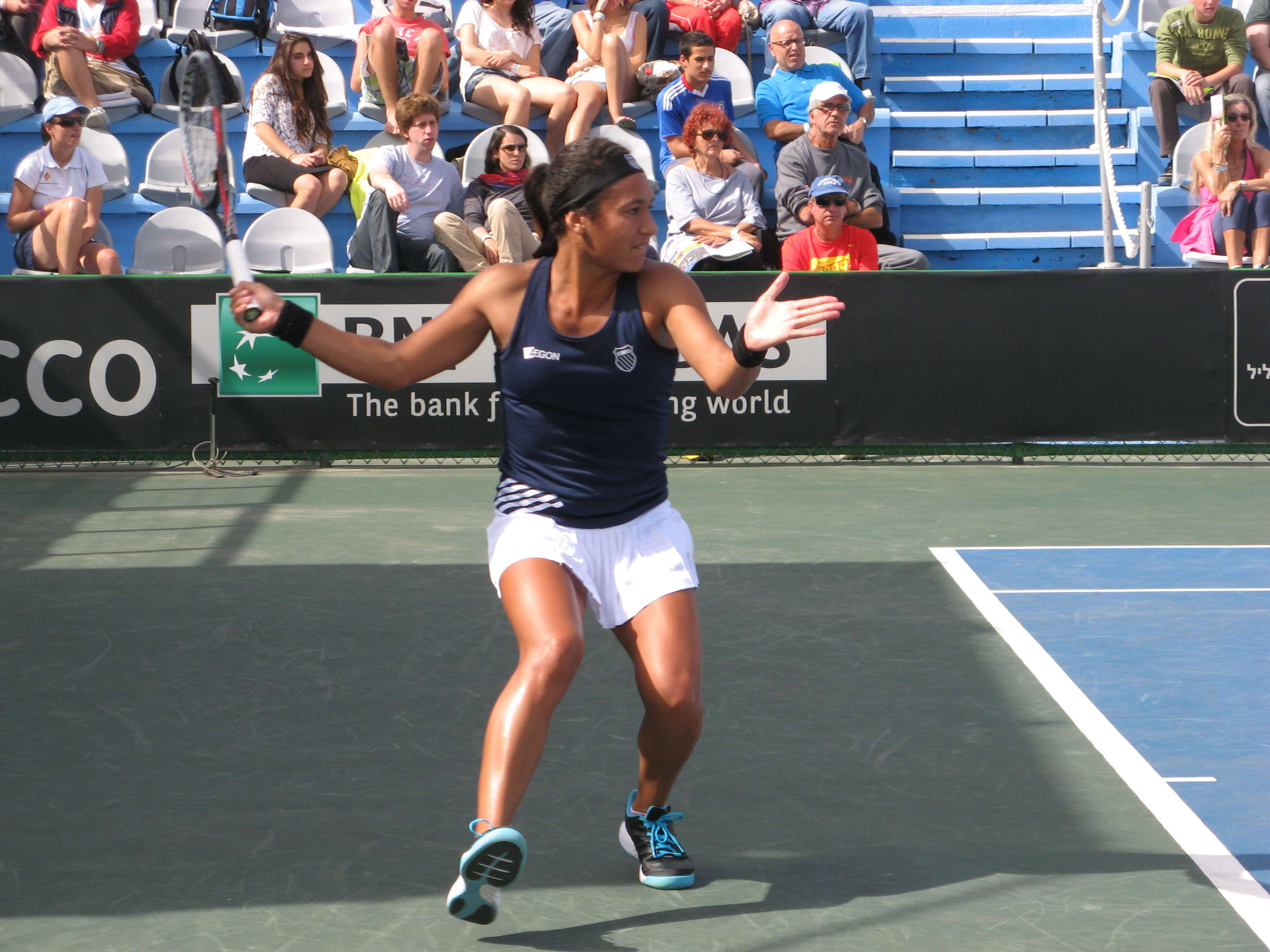 The tennis player Heather Watson of Great Britain during her match against Michelle Larcher de Brito of Portugal in the 3rd day of Fed Cup Group I 2013 Europe/ Africa in Eilat, Israel.